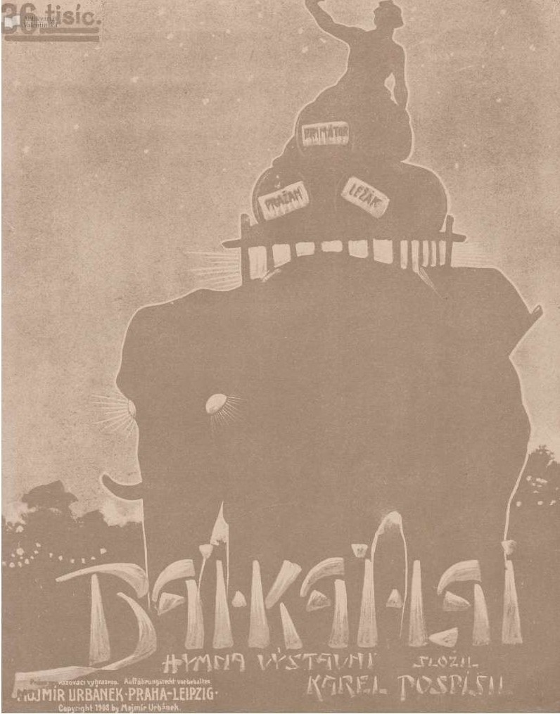 Bai kai lai march, cover page, 1908